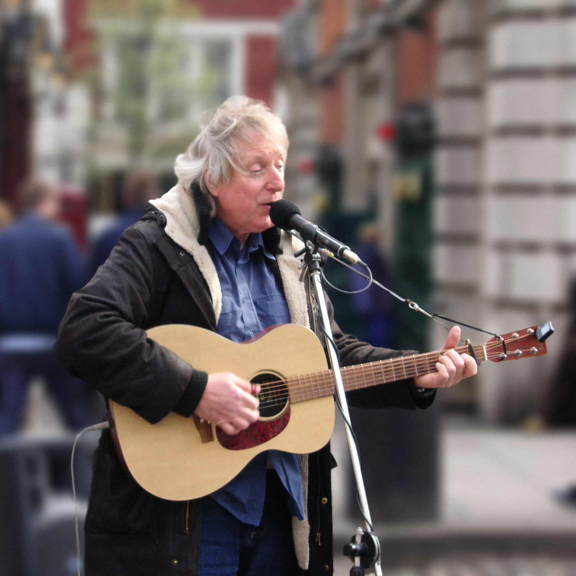 Terry St Clair, Covent Garden, London